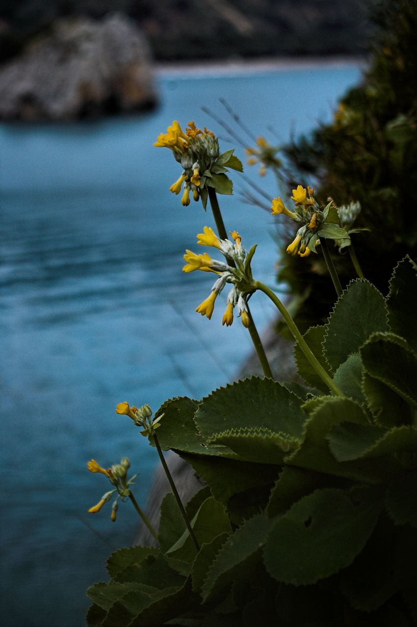 Photo of a Primula palinuri in flower, taken near the Arco Naturale in Palinuro